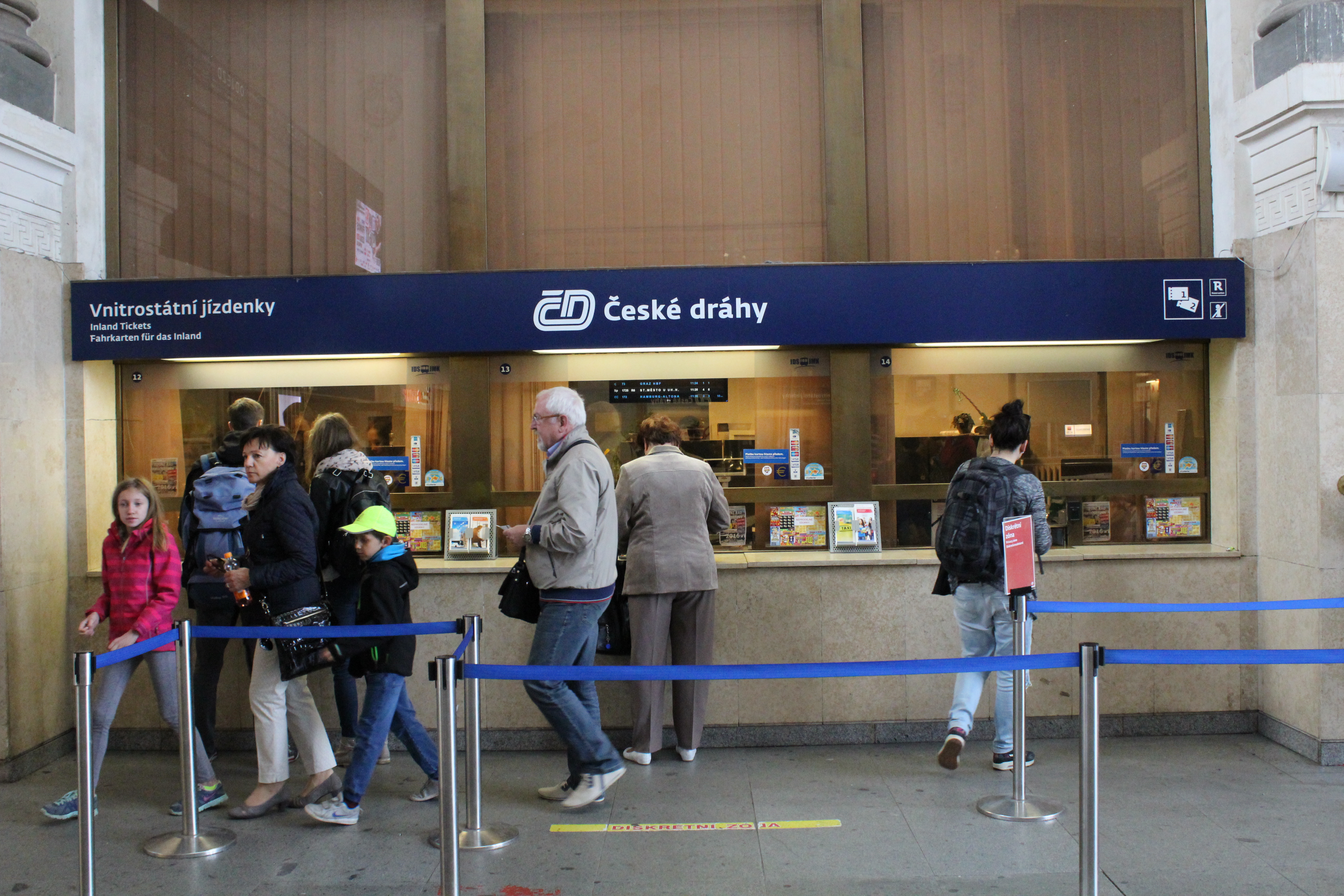 Brno hlavní nádraží, main hall - ticket shop